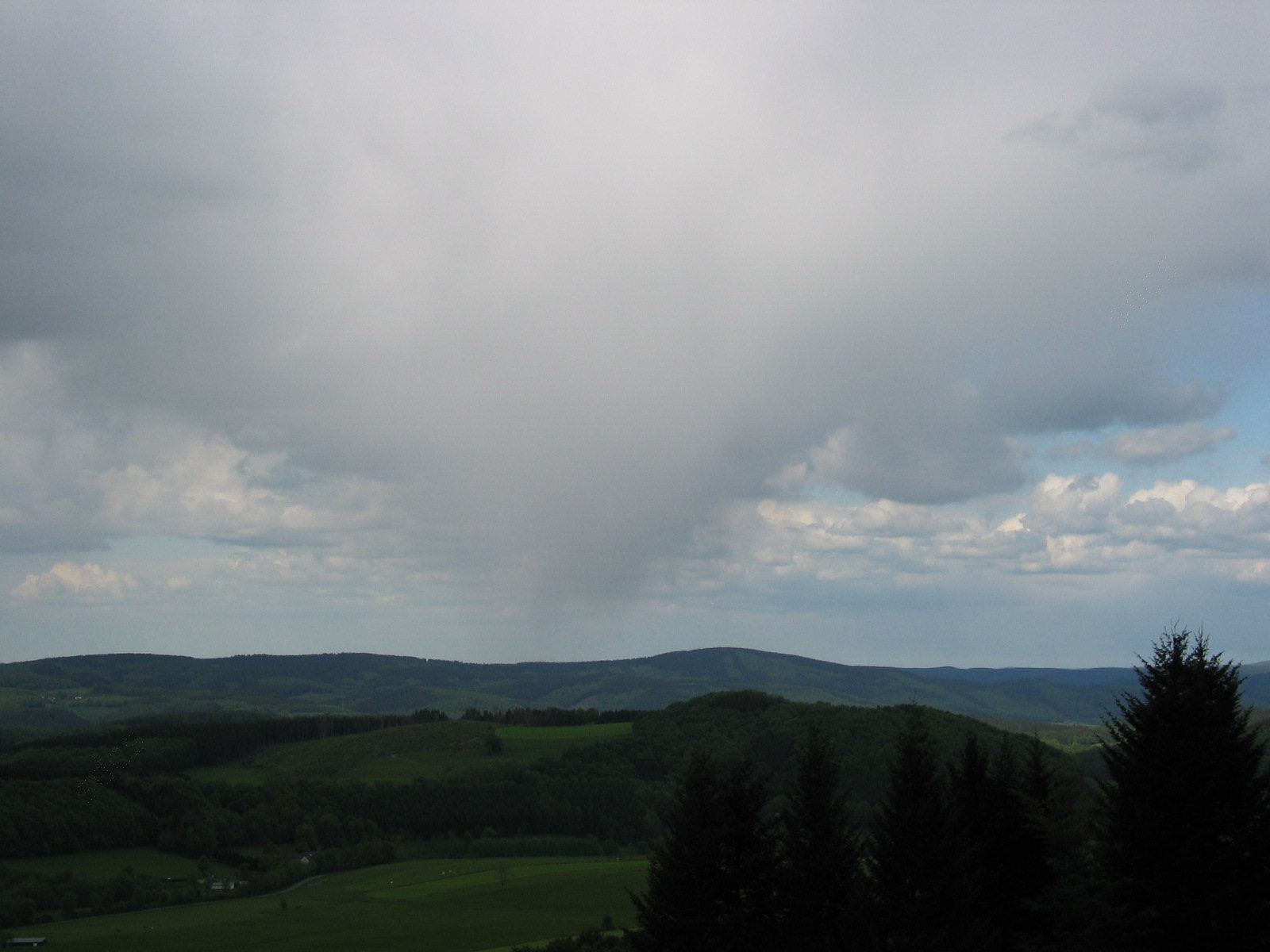 Raining cloud coming to Nordhelle near Lüdenscheid, Sauerland, Germany.